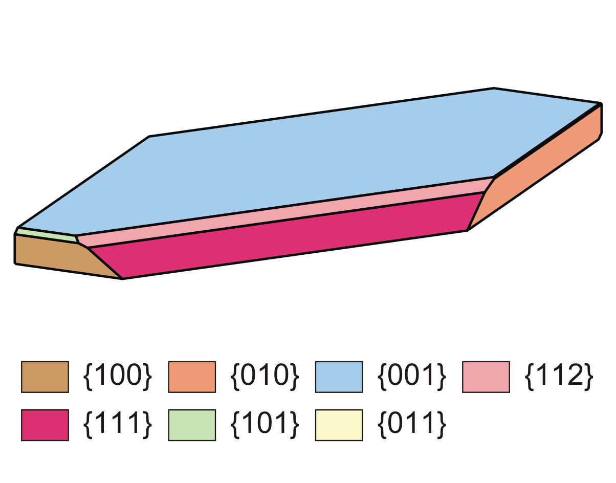 Drawing of a helmutwinklerite crystal; reference: W. Krause et al. (1998), European Journal of Mineralogy Vol. 10, page 183